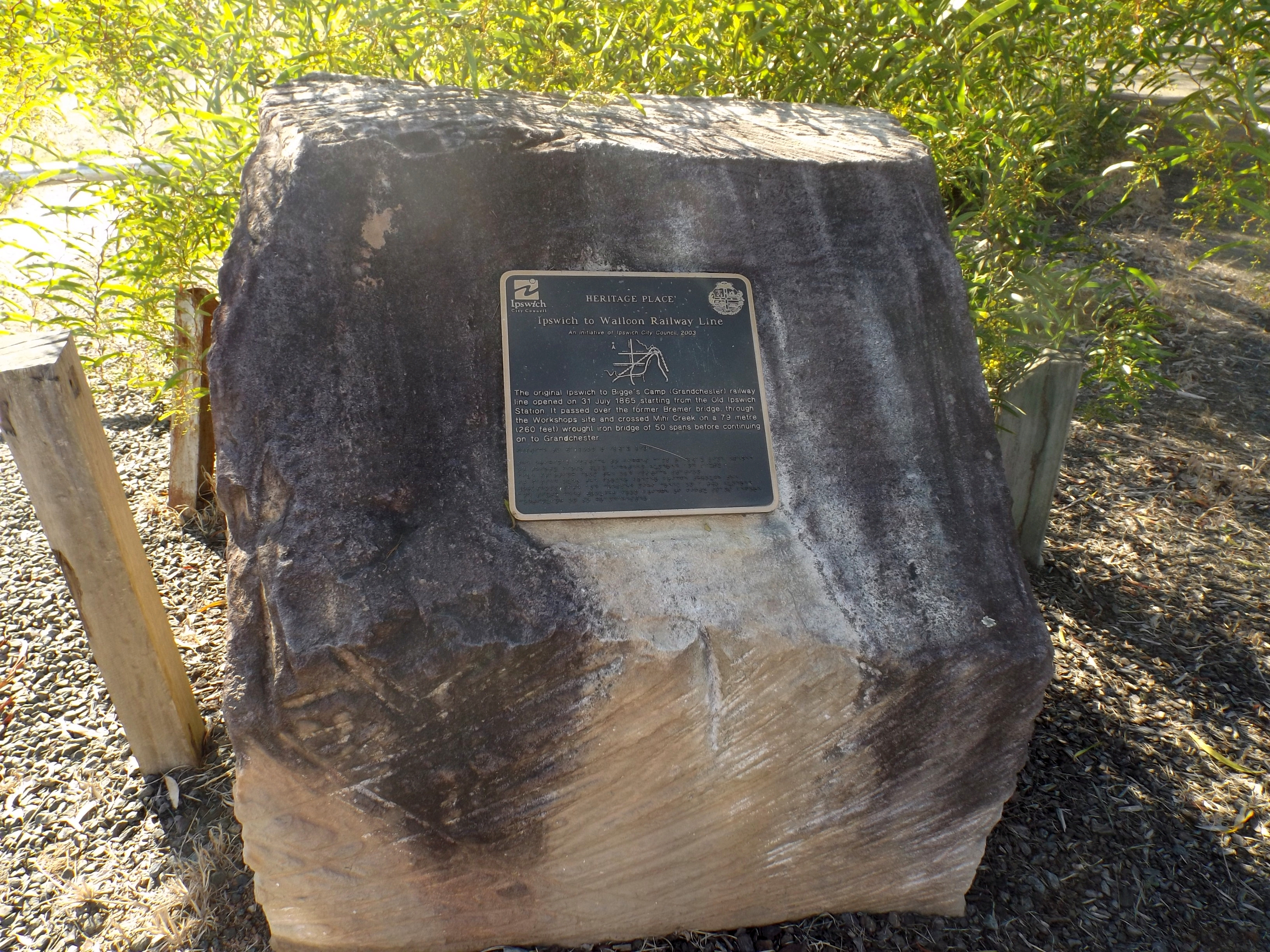 Photo of a plaque for Ipswich to Walloon Railway Line in Brassall, Ipswich, Queensland, Australia.